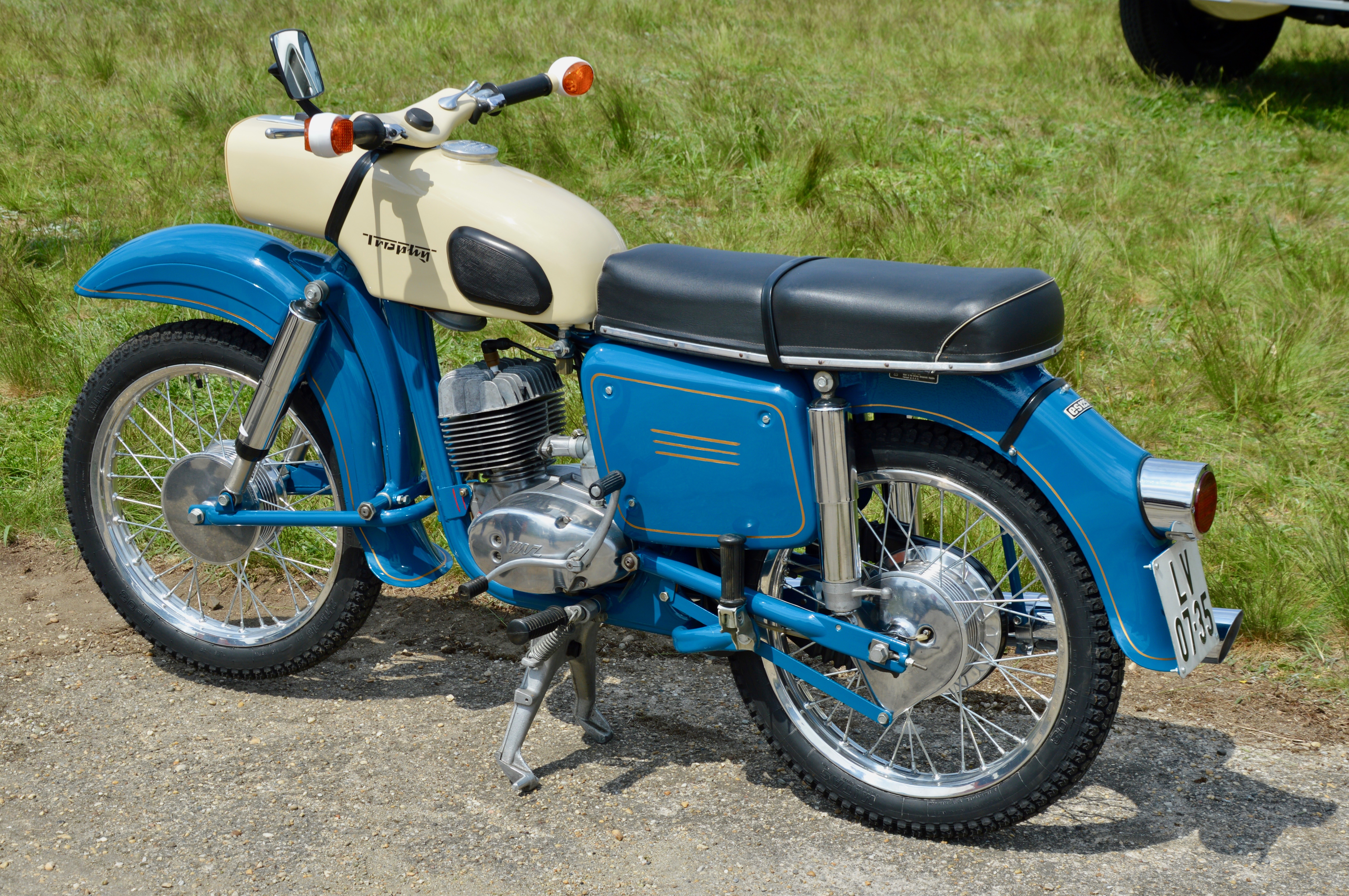 MZ ES 125/1 Trophy